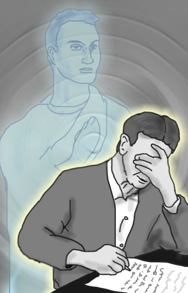 I don't do art for a living, neither for personal nor professional propaganda. I don't make any drawings for money. Thanks.